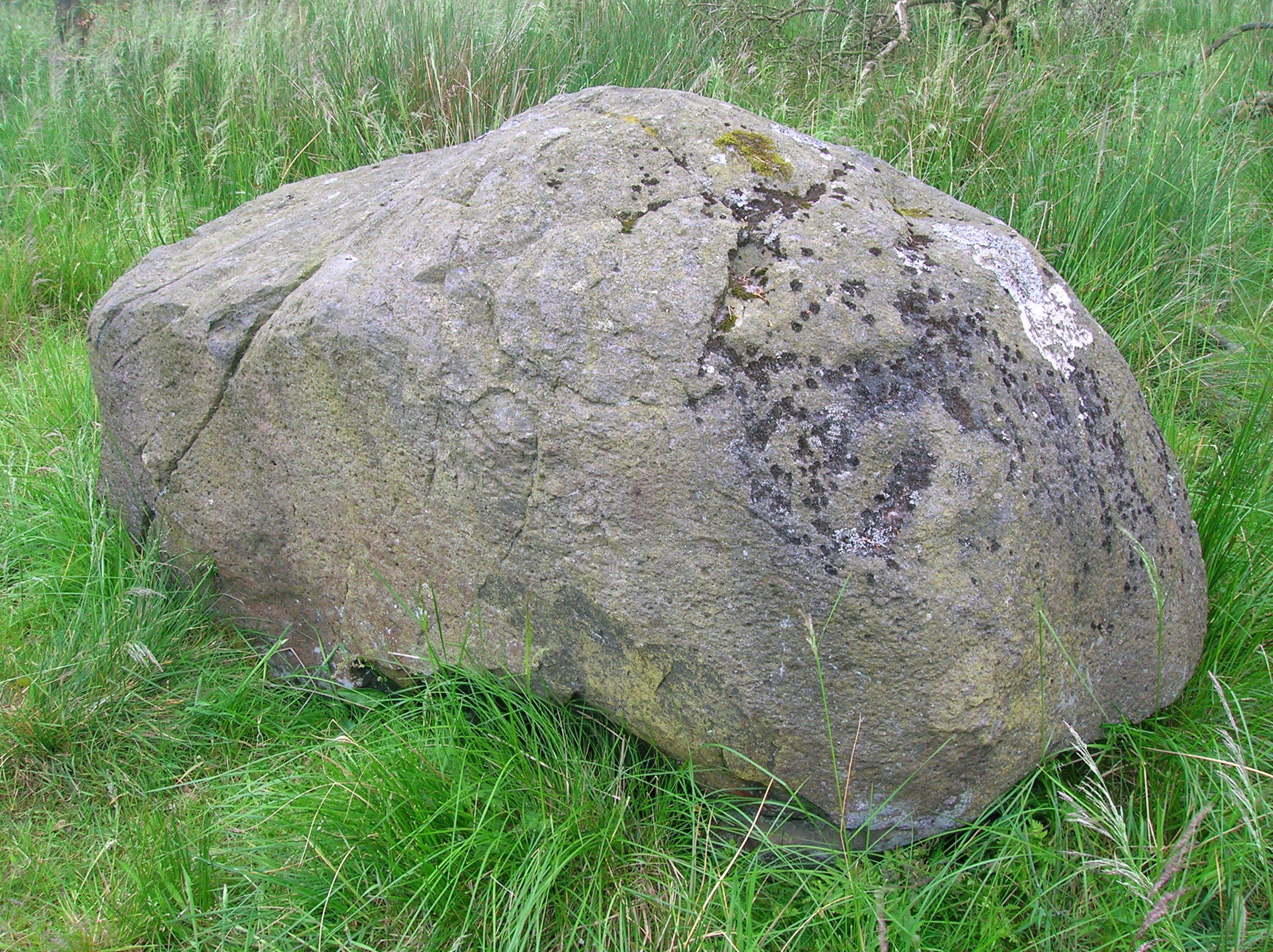 The Cuff Hill rocking stone, Beith, Ayrshire, Scotland.